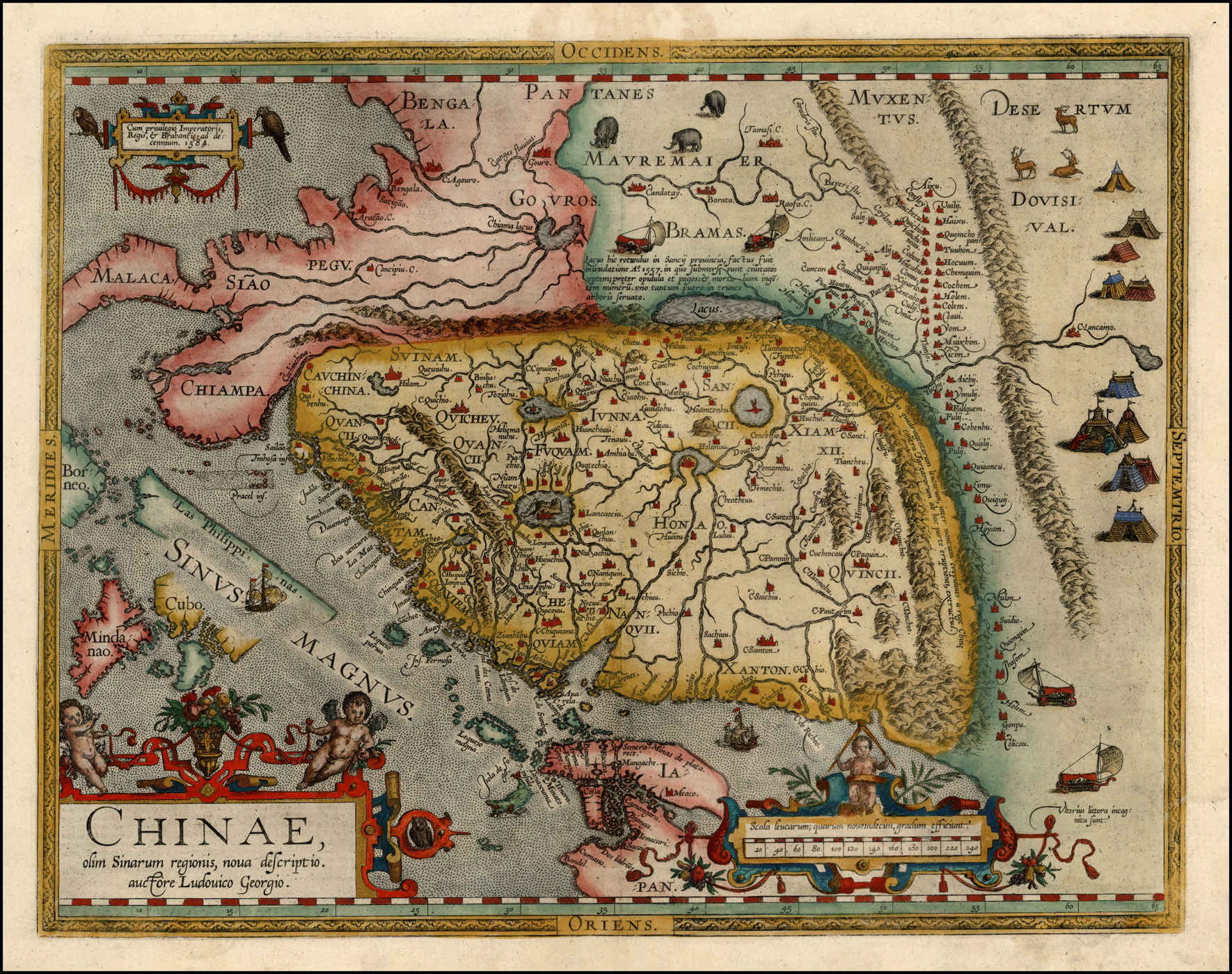 "A new description of China, once called the region of Sina, by Ludovicus Georgius". Ludovicus Georgius is, apparently, the Latinized name of the Portuguese cartographer Luiz Jorge de Barbuda.